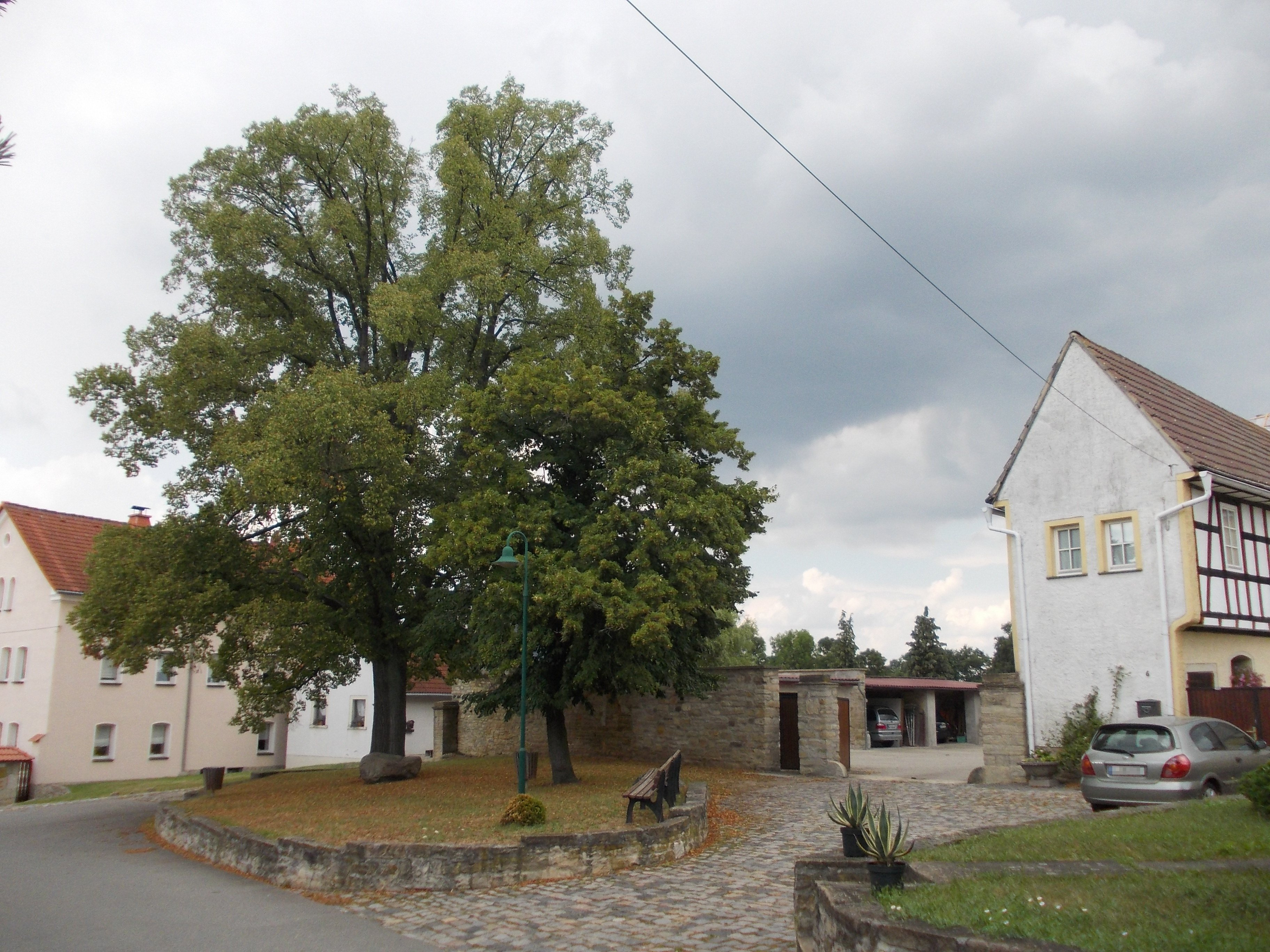 In Nedissen (Schnaudertal, district: Burgenlandkreis, Saxony-Anhalt)